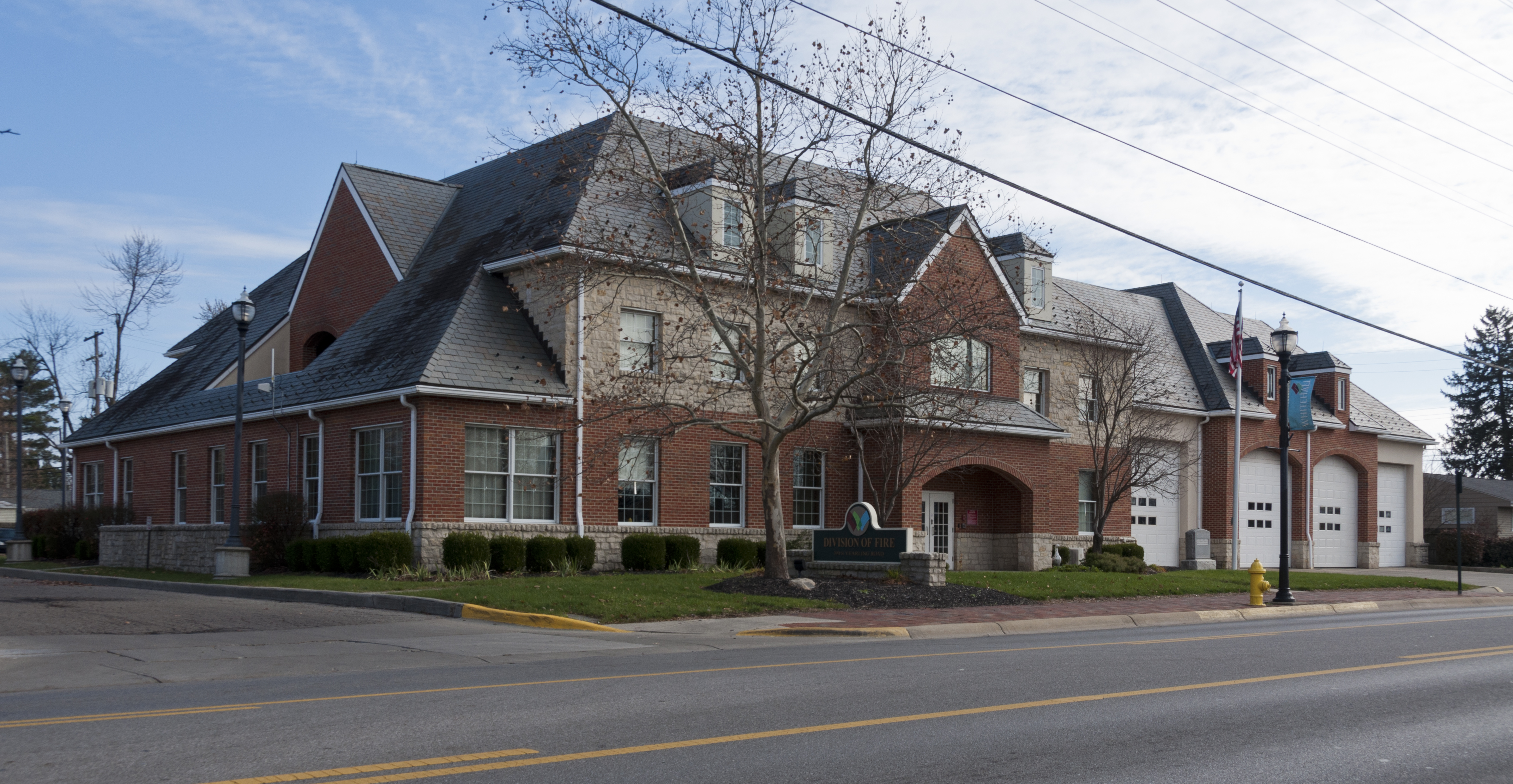 The Whitehall Division of Fire Headquarters seen from Yearling Rd (northwest direction).